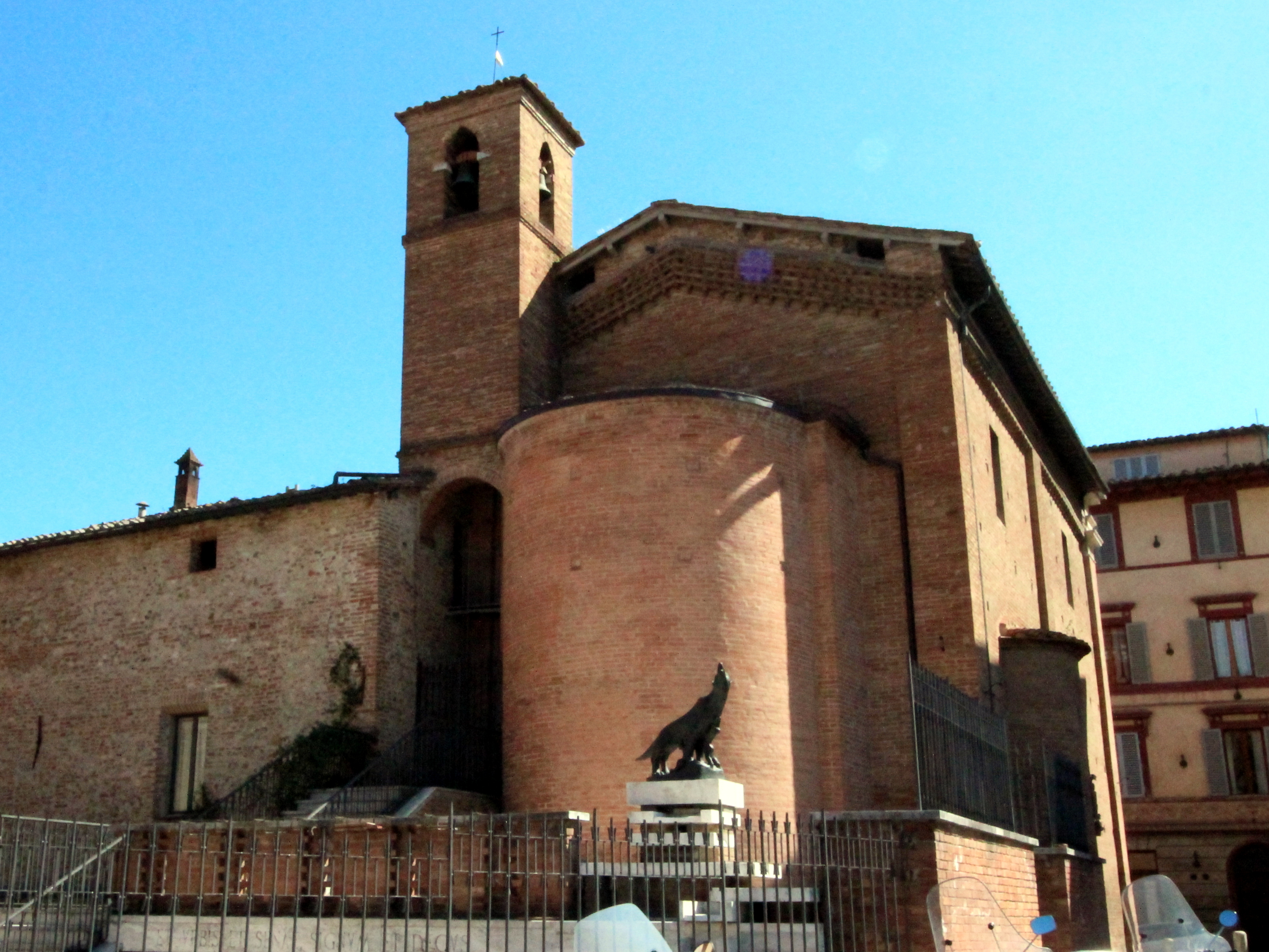 Apsis, Campanile and Contrada Fountain of the Contrada Lupa (backside on Pian d’Ovile), part of San Rocco Church in Siena (Church of the Contrada Lupa) in Vallerozzi and Pian d’Ovile, City Center of Siena, Terzo di Camollia, Province of Siena, Tuscany, Italy